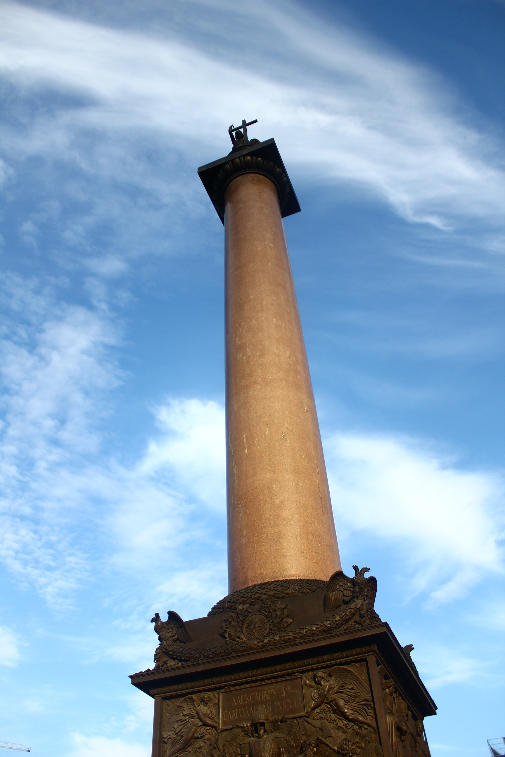 The palace square